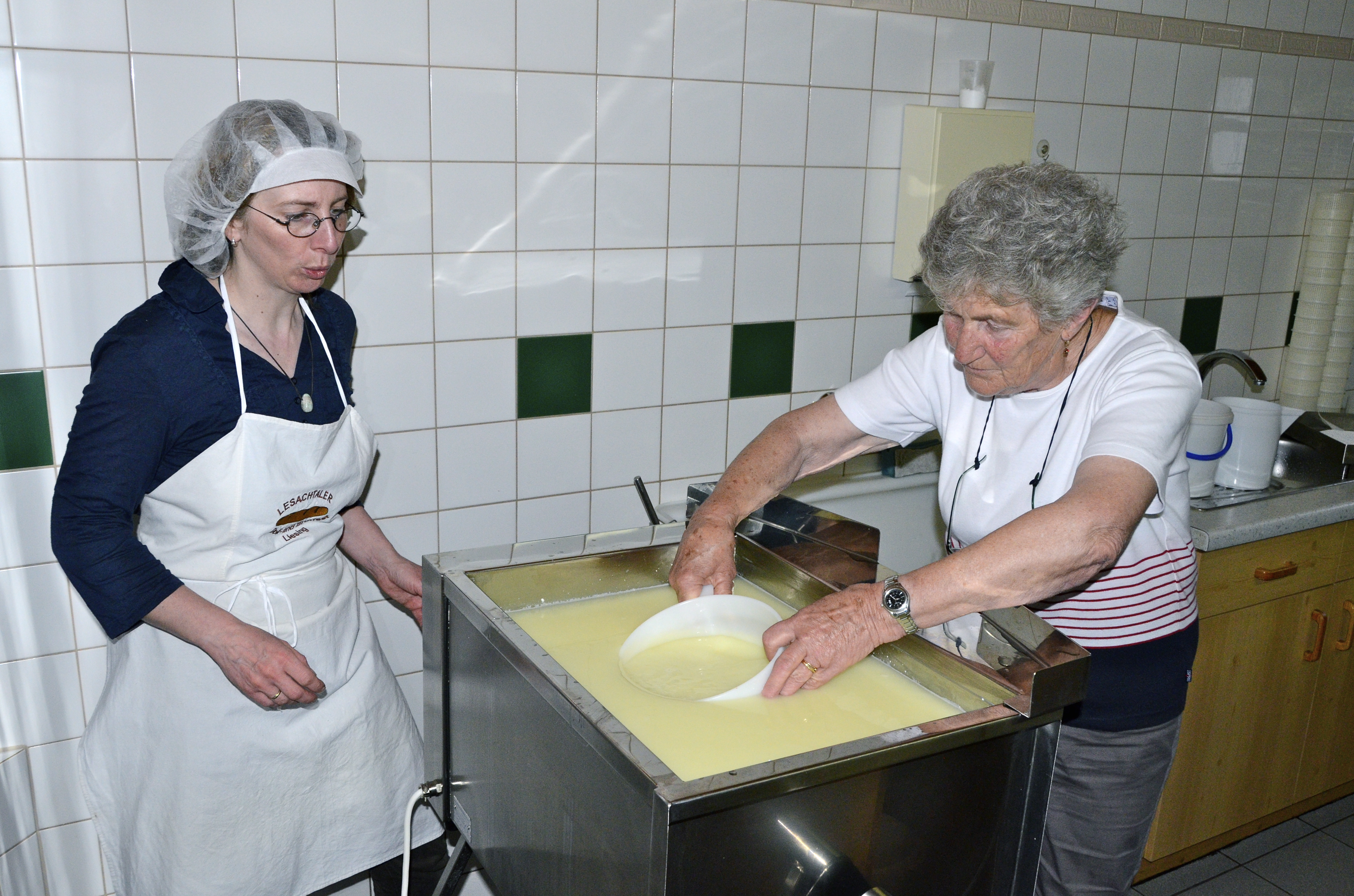 Scooping of the whey from sheep milk`s curds on Joehrerhof at Tscheltsch #4, Liesing, municipality Lesachtal, district Hermagor, Carinthia / Austria / EU